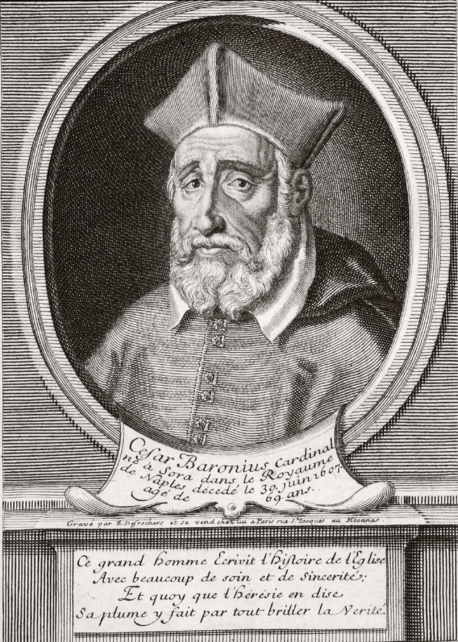 Cardinal Cesare Baronius (1538-1607)